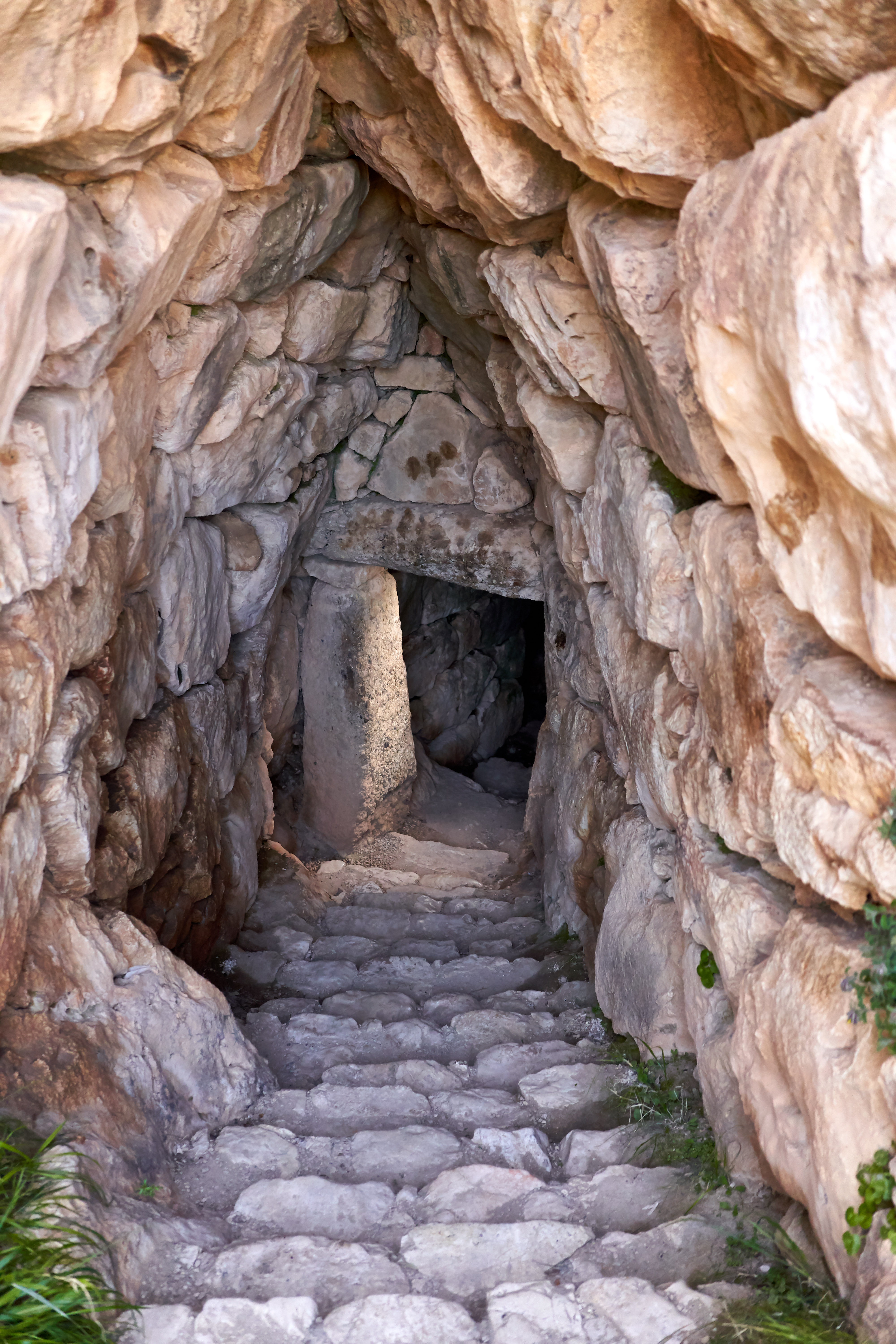 Underground cistern. Its construction is one of the most spectacular achievements of Mycenaean building art. The descent to the cistern is corbelled. It begins inside the citadel, cuts obliquely through the fortification wall and continues underground outside the citadel, with steps interrupted by two landings at the point where they turn. At the far end of the passage, at a depth of 18 metres, is a quadrilateral roofed shaft. This received the water from the natural spring extra muros, which was channeled to it along clay conduits. This underground aqueduct secured the continuous supply of water to the citadel and was the basic reason for the extension of the northeast section of the wall. Text: Information board at the archaeological site